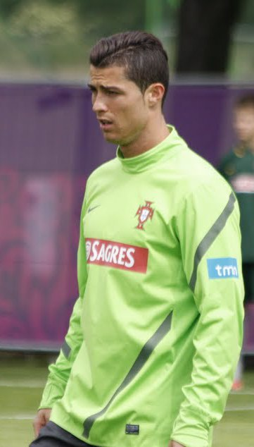 Cristiano Ronaldo training before Euro 2012 in Opalenica.